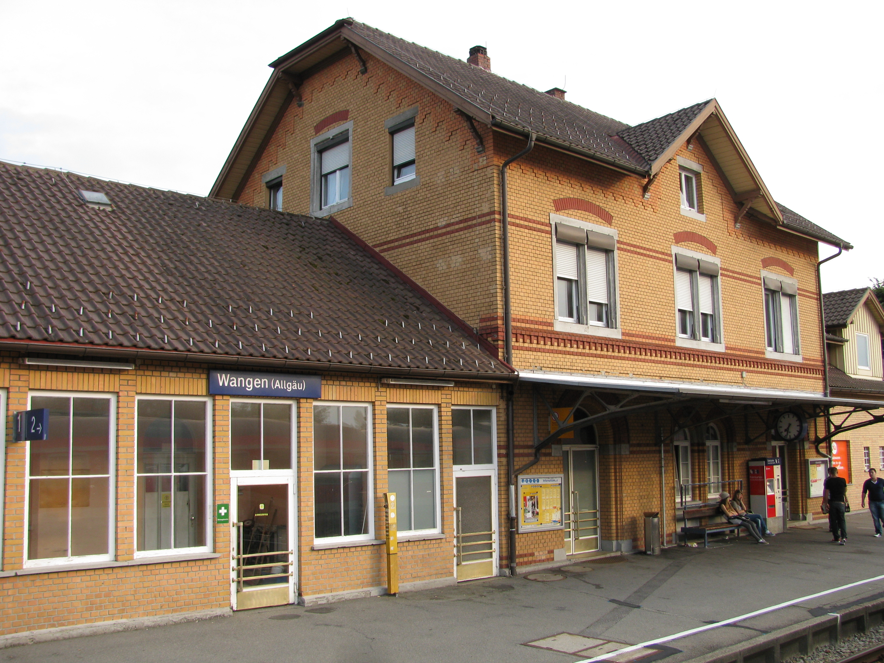 Germany - Baden-Württemberg - district Ravensburg - Wangen im Allgäu: station